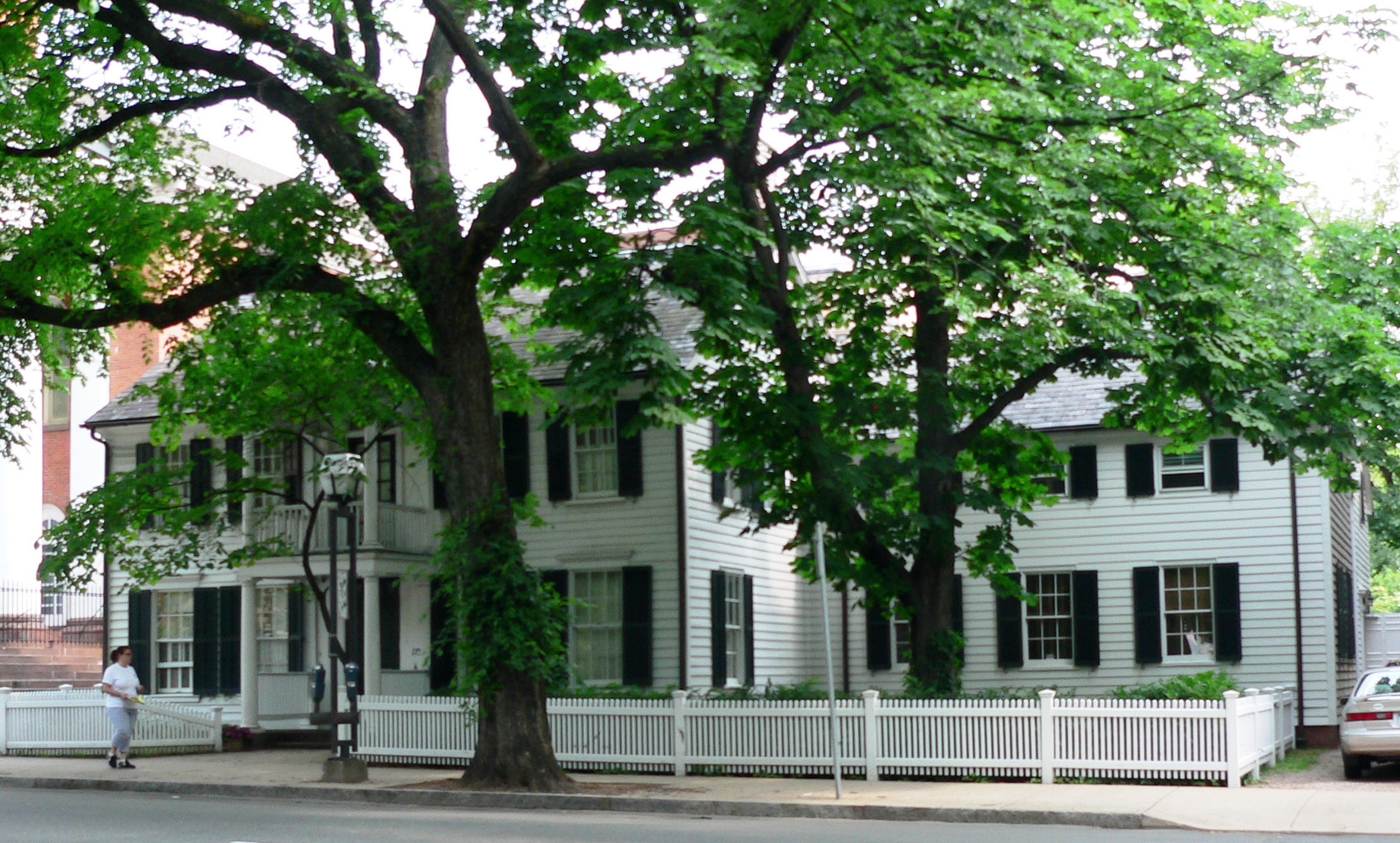 I took this photo of the historic Yale Elihu Club (senior society) facade in June 2007.